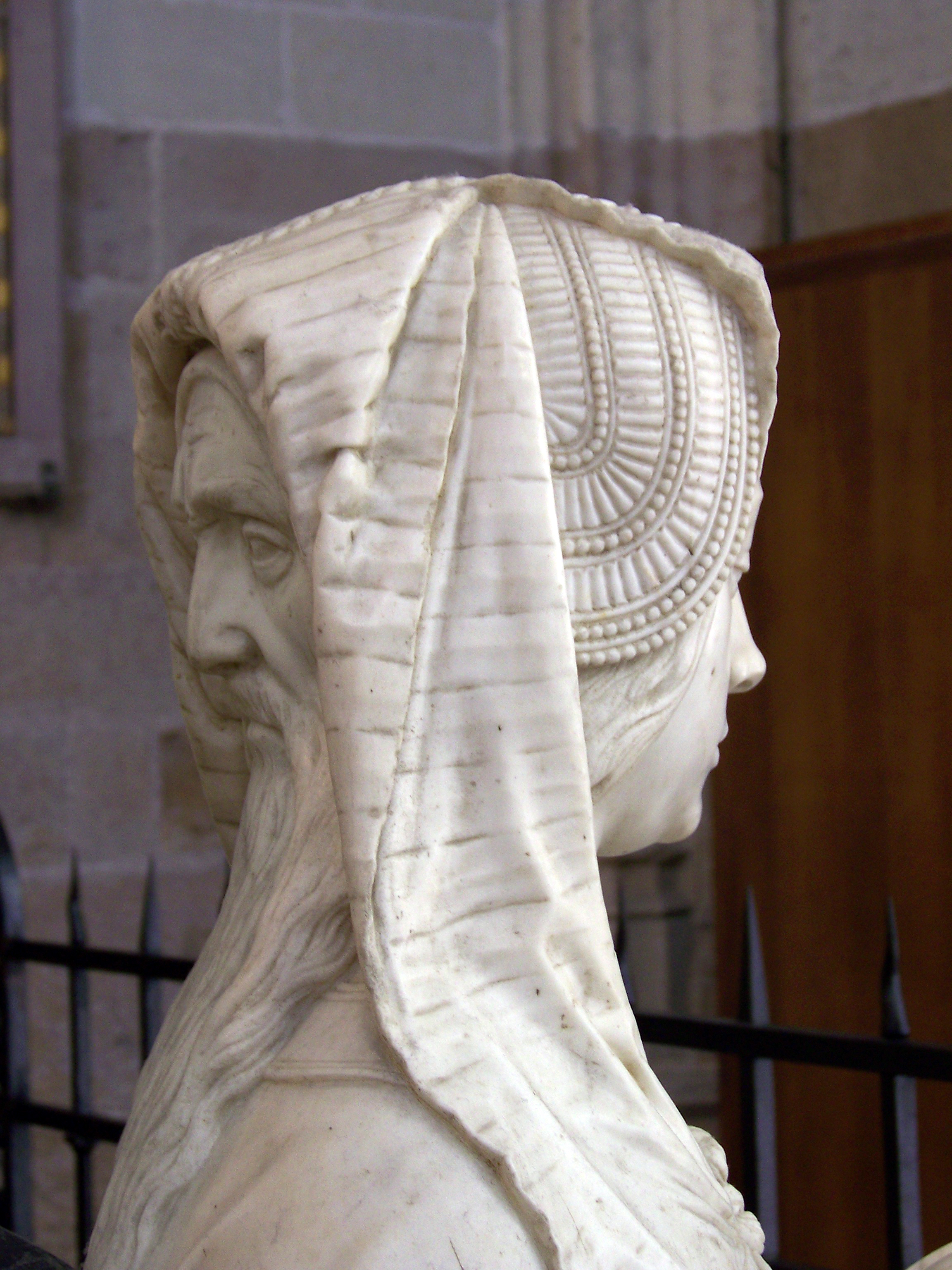 Tumb of François II de Bretagne and Marguerite de Foix, in the Cathédrale Saint-Pierre et Saint-Paul de Nantes (southern transept). Detail of the north-western statue, "Prudence"